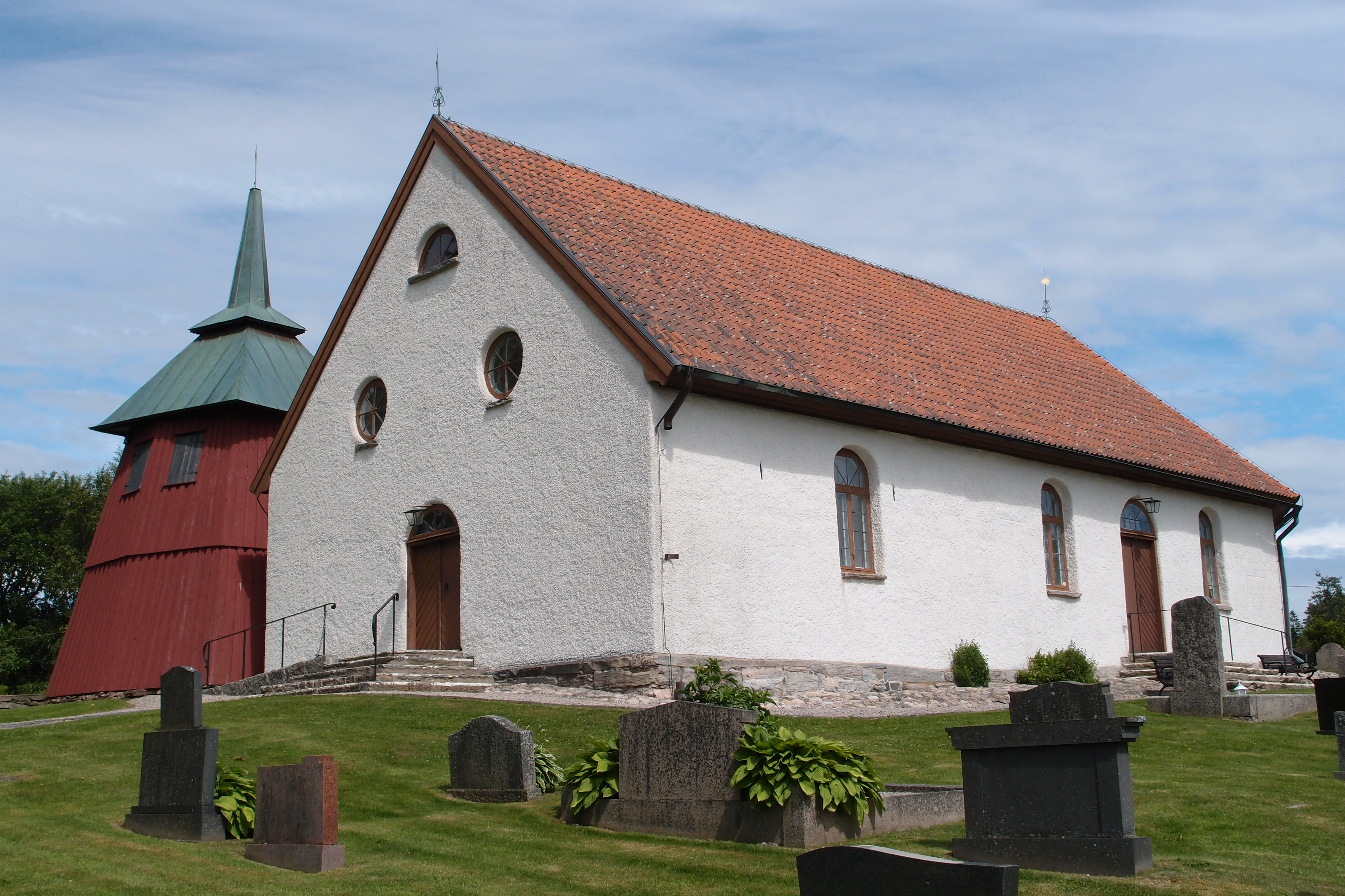 Hajom Church